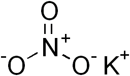 chemical structure of potassium nitrate